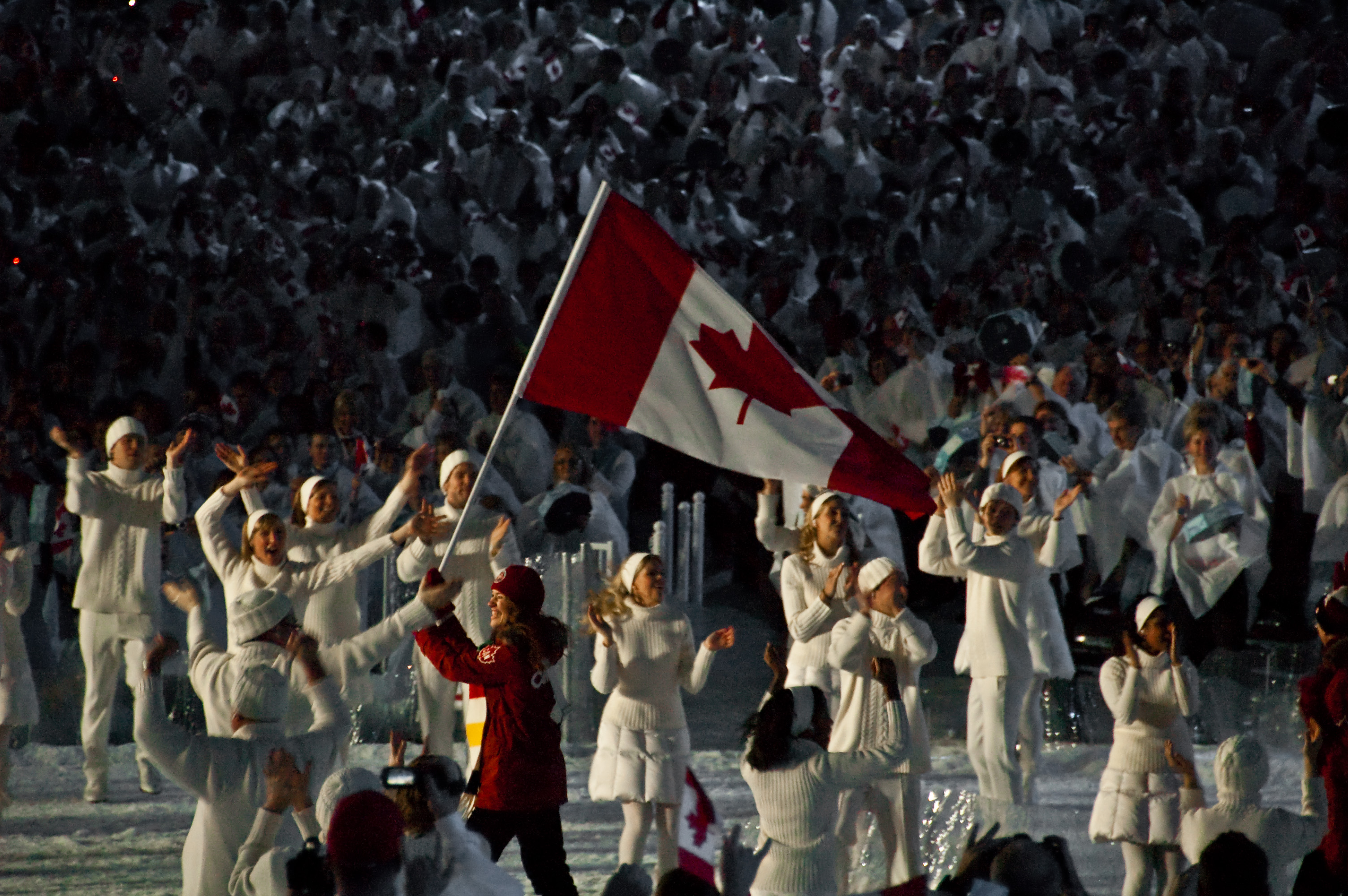 Clara Hughes carrying the Canadian flag during the entrance of the athletes at the 2010 Winter Olympics